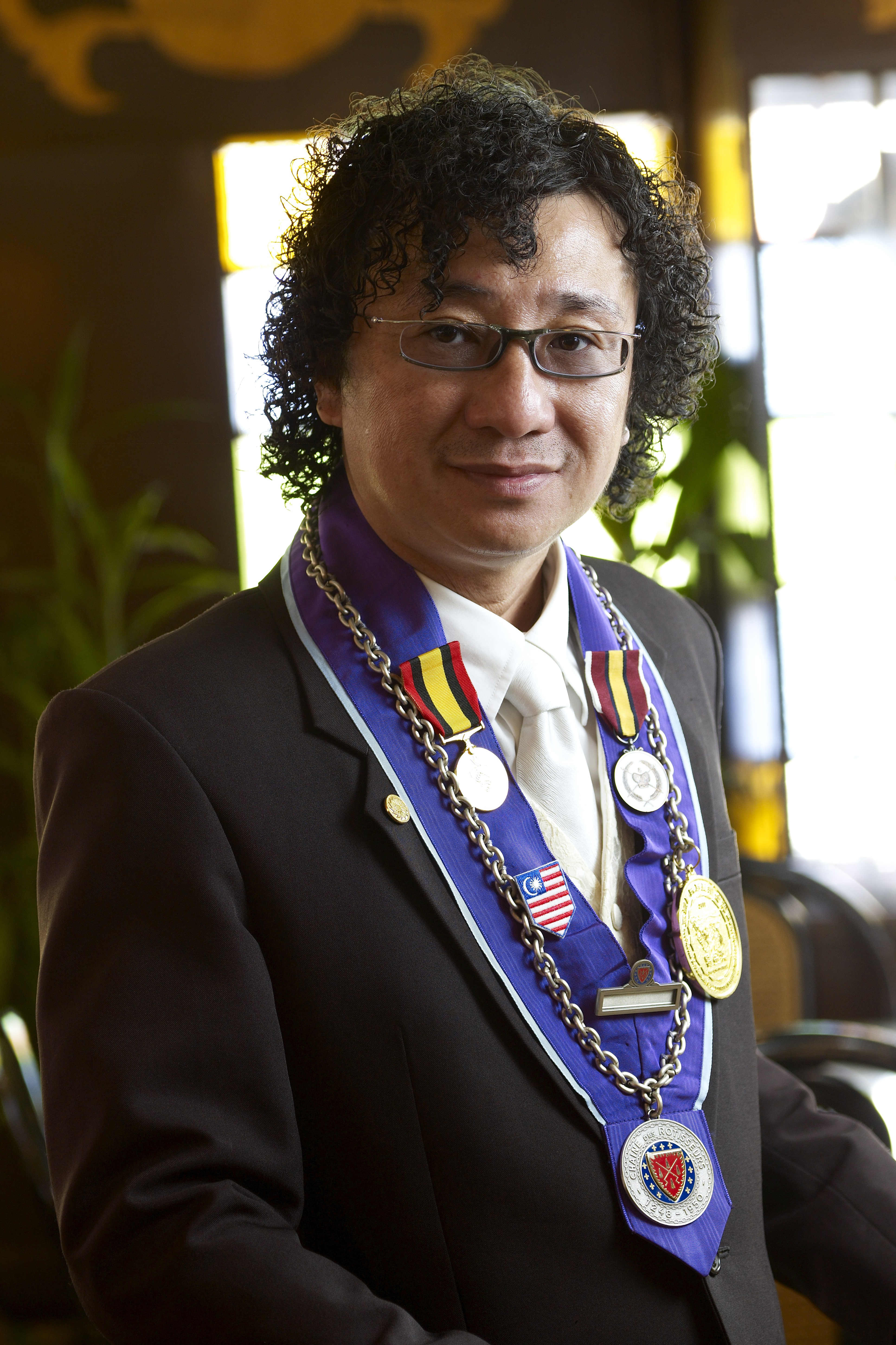 Photography of Food Critic Malaysia Jacky Liew